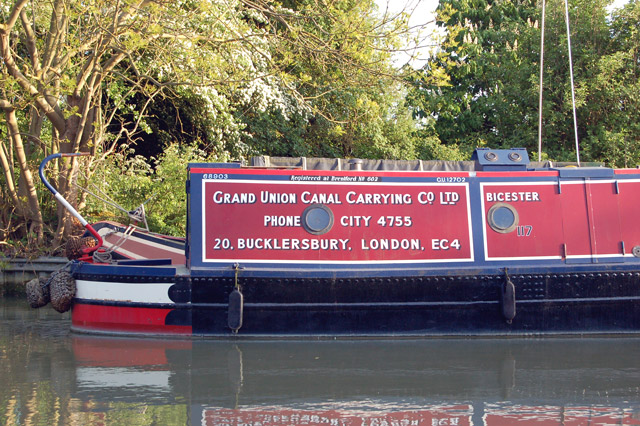 Narrowboat signwriting